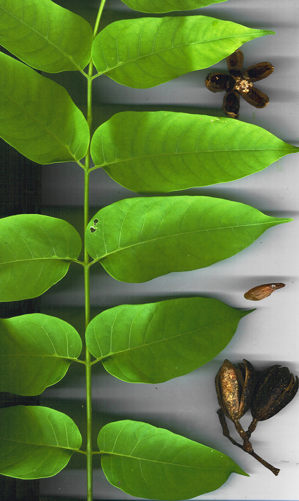 Cedrela odorata (plant). Location: Maui, Hana Hwy